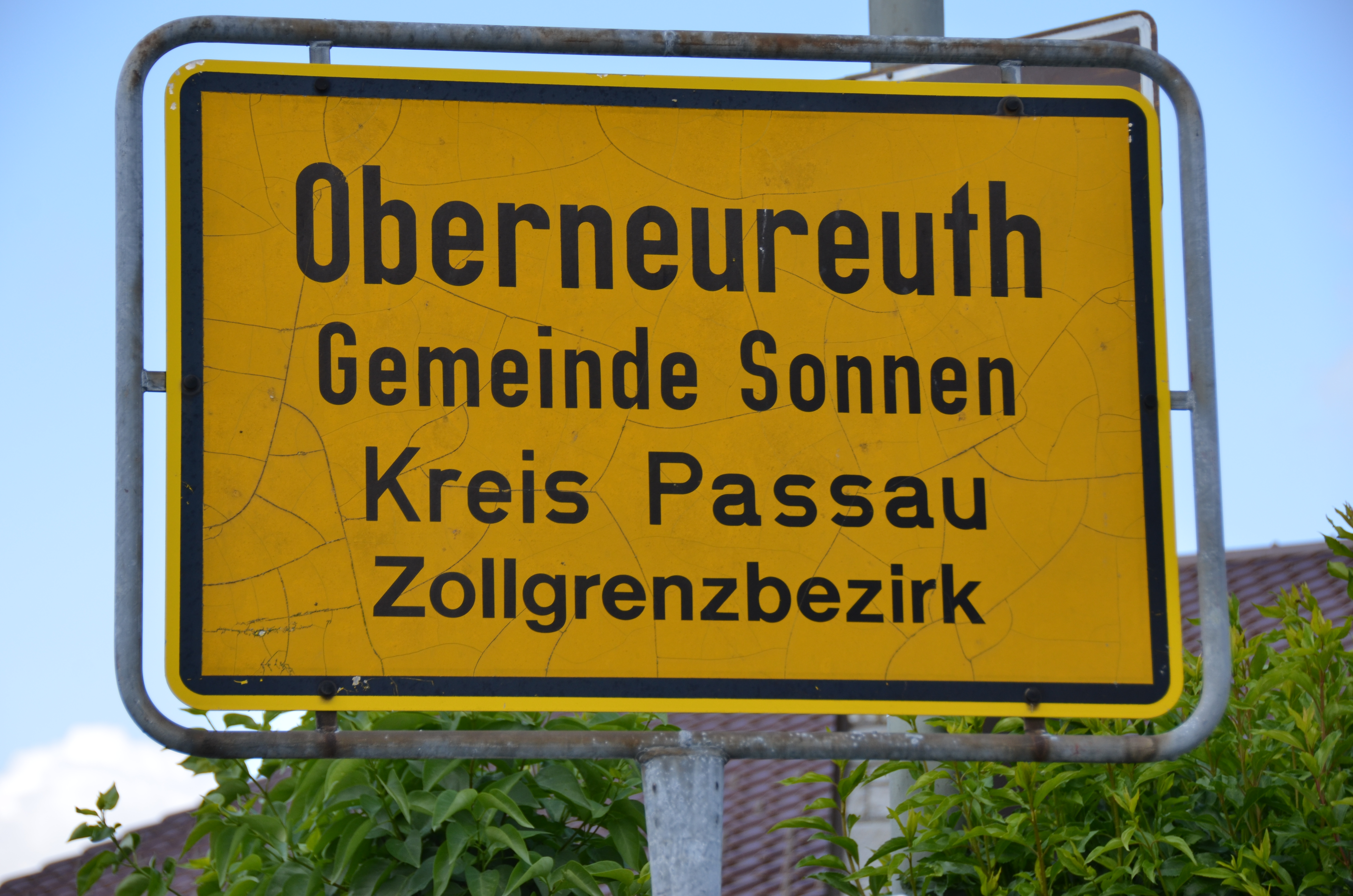 City limit sign of the quarter Oberneureuth belonging to the municipality Sonnen in the district of Passau in Bavaria in Germany. It also bares a note that this is a customs border district.